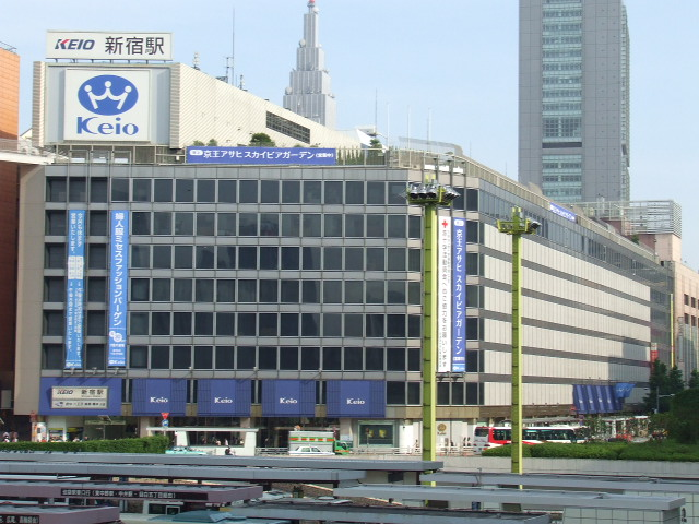 Keio Department Store Shinjuku, Tokyo, Japan